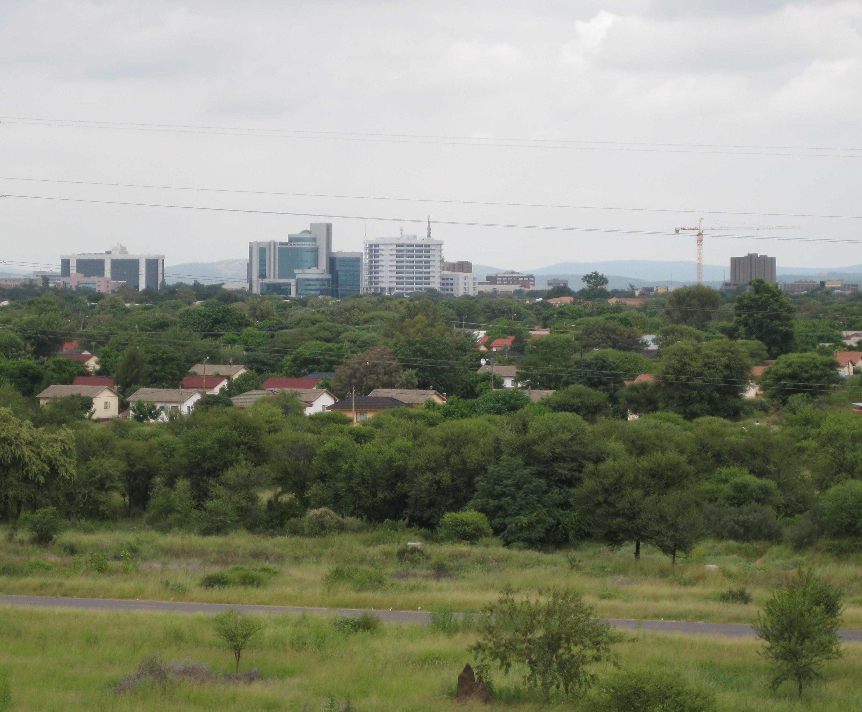 Skyline of Gaborone, Botswana